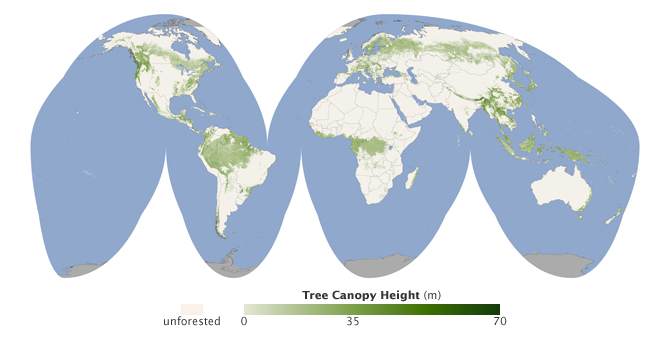 Global forest heights map produced from ICEsat mission data. Low resolution version.